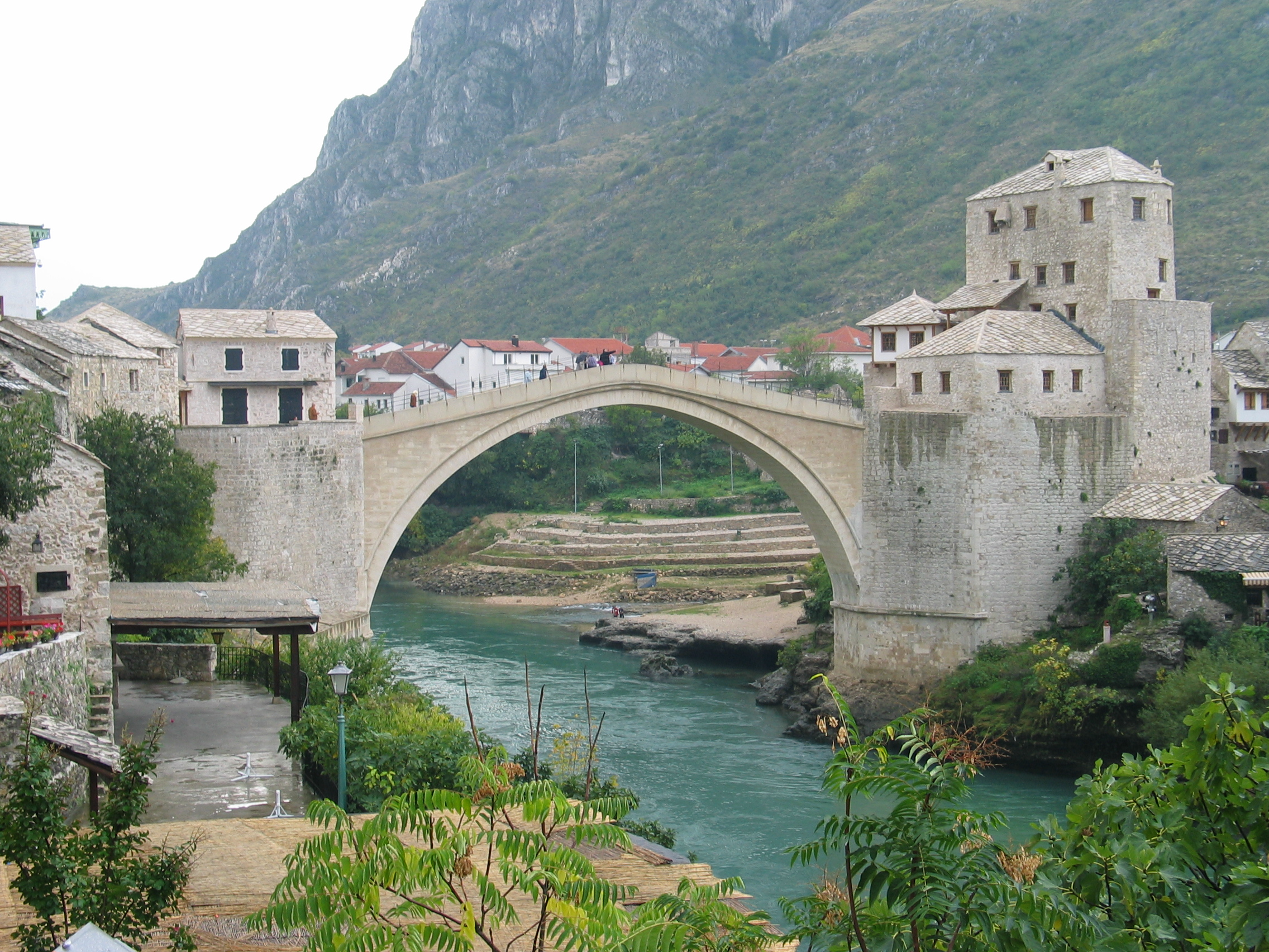 Stari Most. The rebuilt old bridge as it looked like in 2006